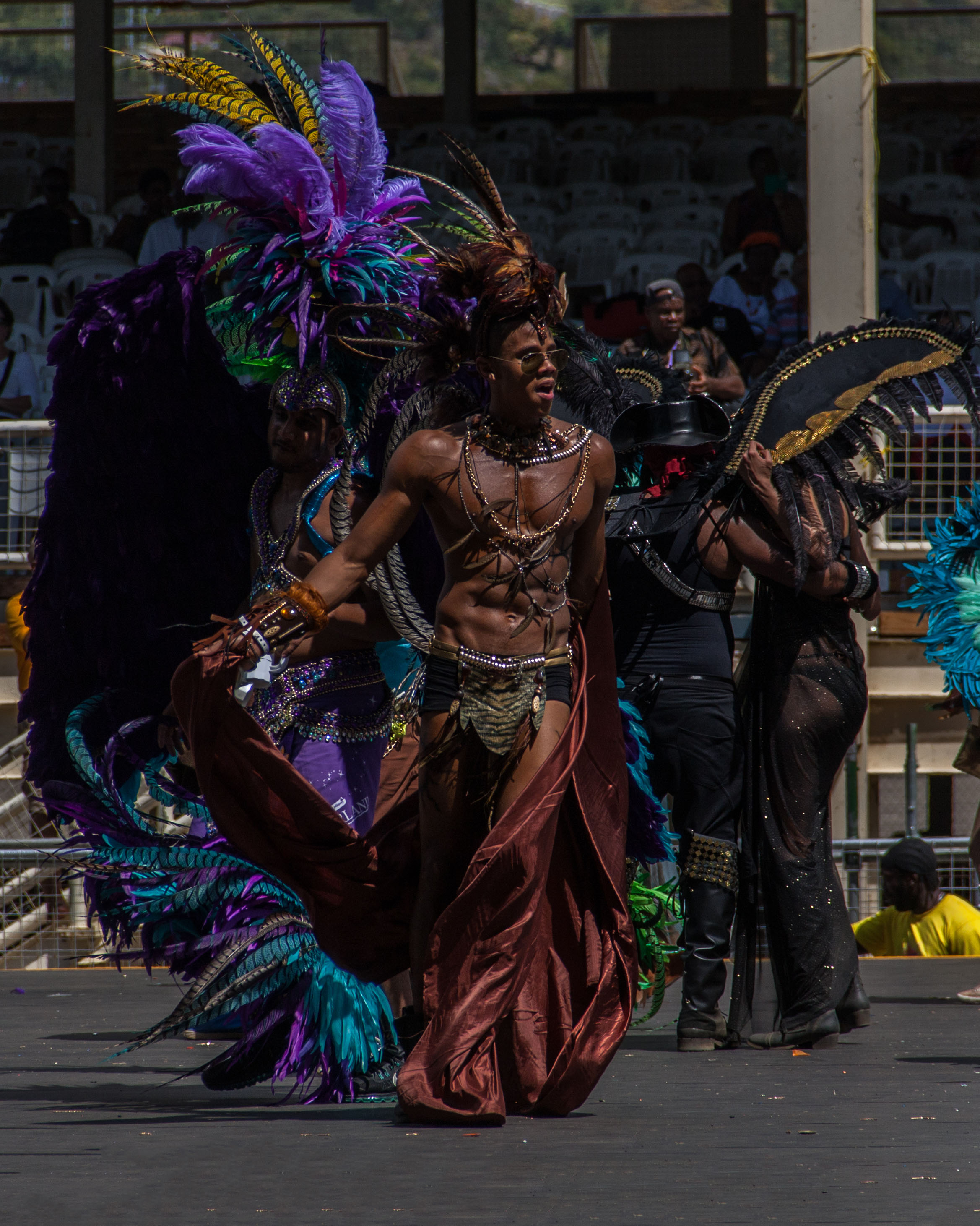 Parade of the Bands, Trinidad & Tobago Carnival